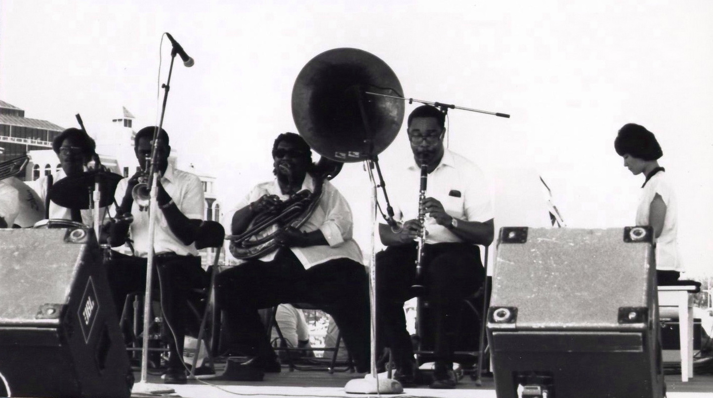 Dr. Michael White's jazz band playing an outdoor concert in Woldenberg Park, New Orleans. Visibile musicians include Big Al Carson, sousaphone; Michael White, clarinet; Mari Wantanabe, piano. Larry Batiste on drums.